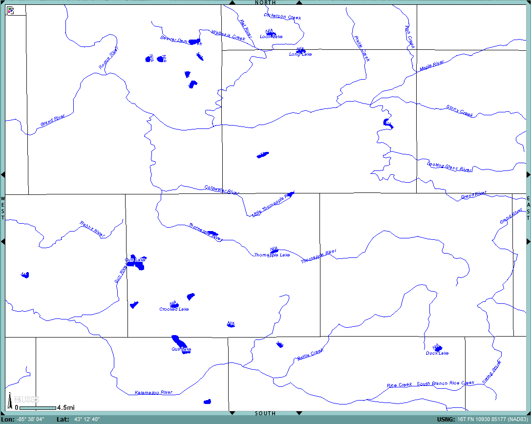 watershed outline image of Thornapple River and surroundings from USGS site